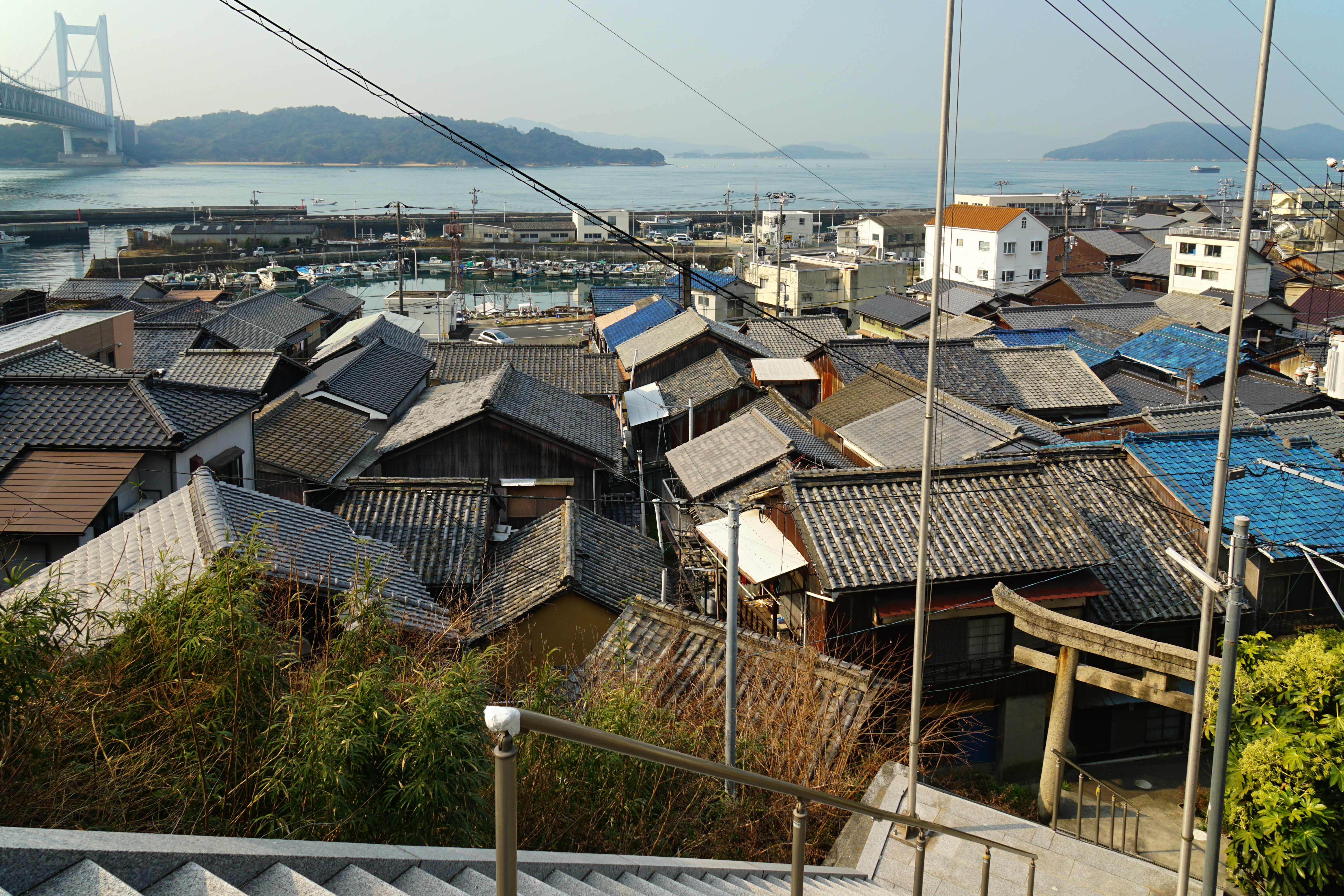 Tatsuchinouranimashimasu-jinja in Shimotsui, Kurashiki, Okayama prefecture, Japan